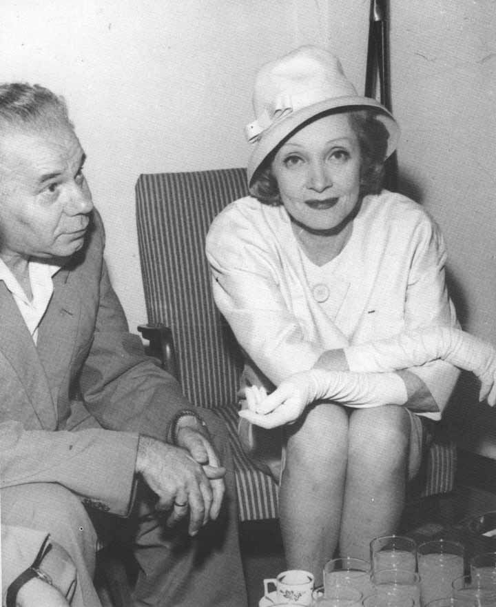 Marlene Dietrich with Jerusalem's mayor Ish-Shalom during a concert tour of Israel, June 1960.